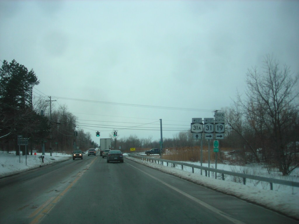 Approaching New York State Route 31A on New York State Route 31 westbound in Sweden.